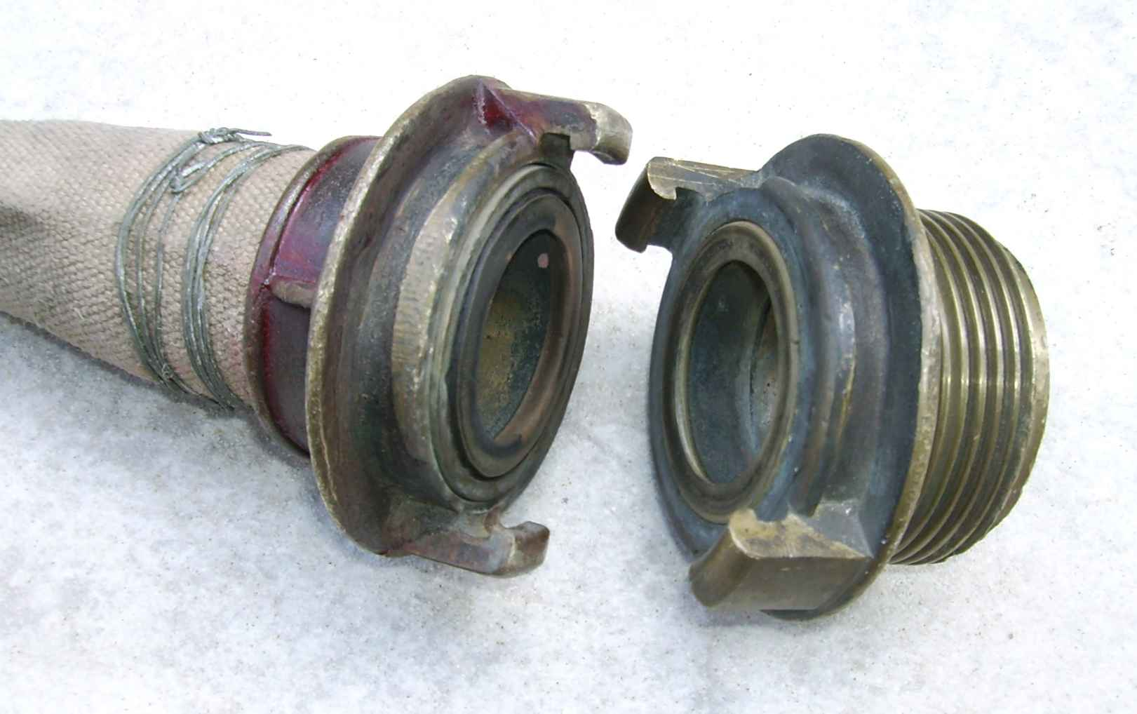 former Knaust-coupling in Austrian-Hungary empire